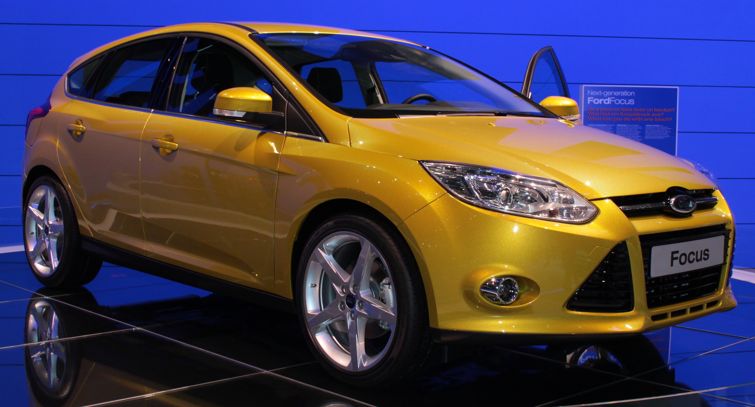 Ford Focus MkIII at the 2010 Geneva Motor Show